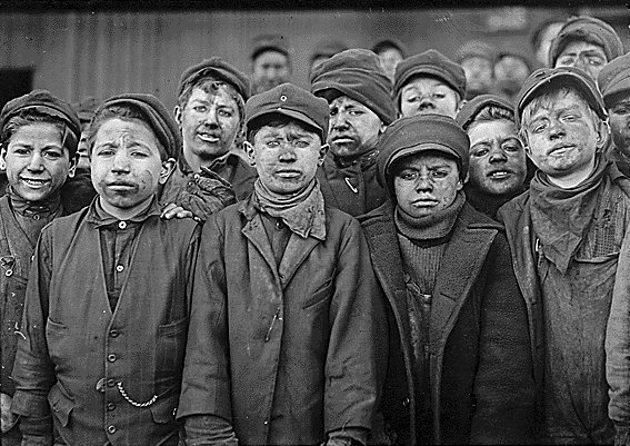 Description: Child laborers in a coal mine. From: The History Place photograph of American child labourers from 1908-1912